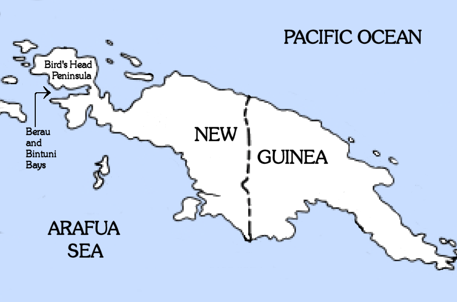 Outline map of New Guinea showing location of Berau Bay and Bintuni Bay off Bird's Head Peninsula.